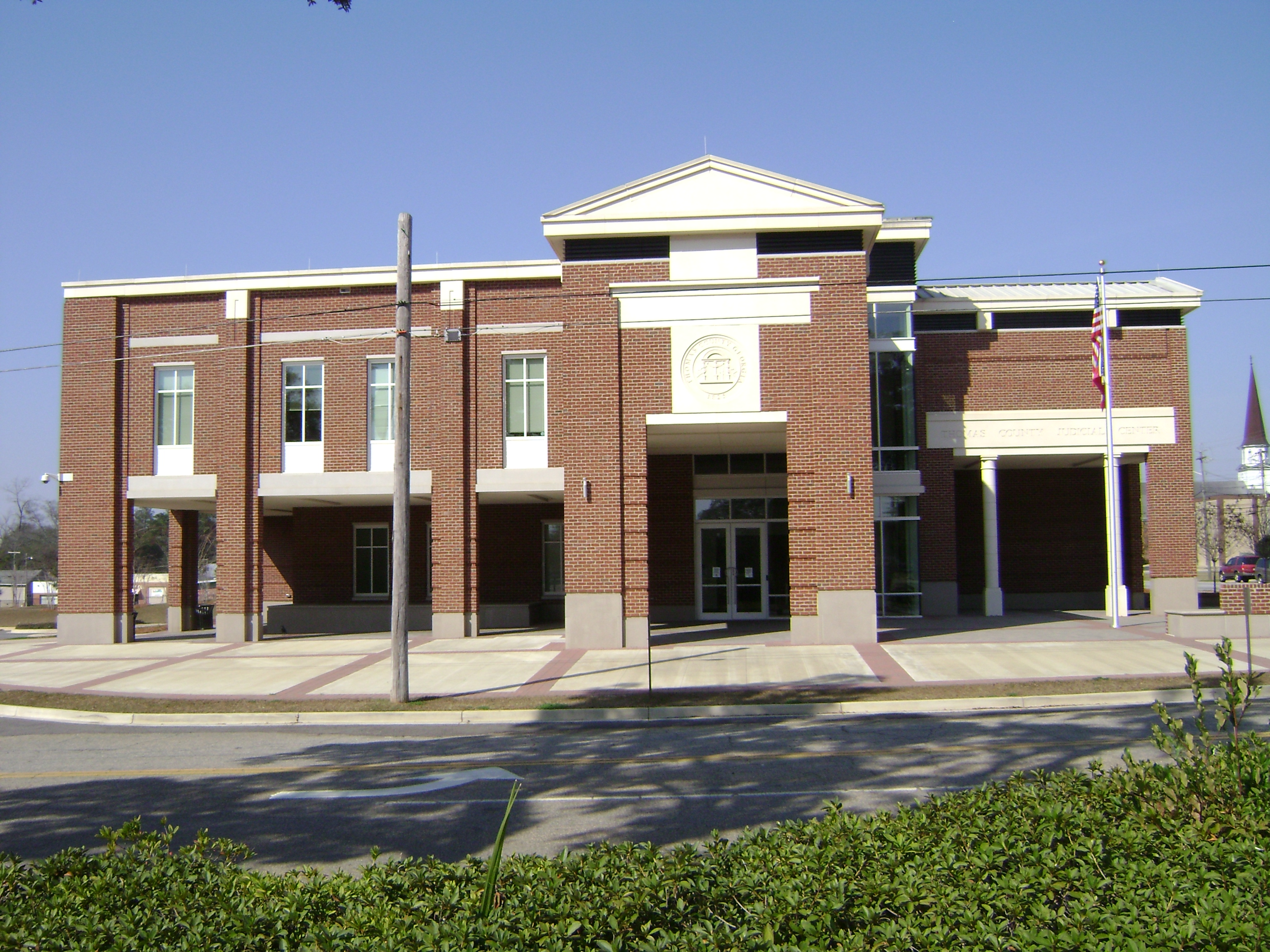 Thomas County Judicial Center (SE face), Thomasville, Thomas County, Georgia